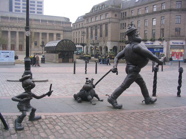 Desperate Dan Dan is striding out with his faithful pet Dawg in tow and stalked by a life-size version of The Beano prankster catapult-wielding Minnie the Minx. The statue was unveiled by school children on Thursday 19 July 2001. The bronze sculpture is the work of Angus artists Tony and Susie Morrow and stands 8ft tall.